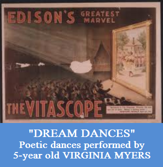 Advertisement for the American film Dream Dances (1912). This was production 1000 of Edison Studios.